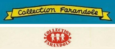 The two banners of the book collection for children "La Farandole", Casterman Publishers, France.